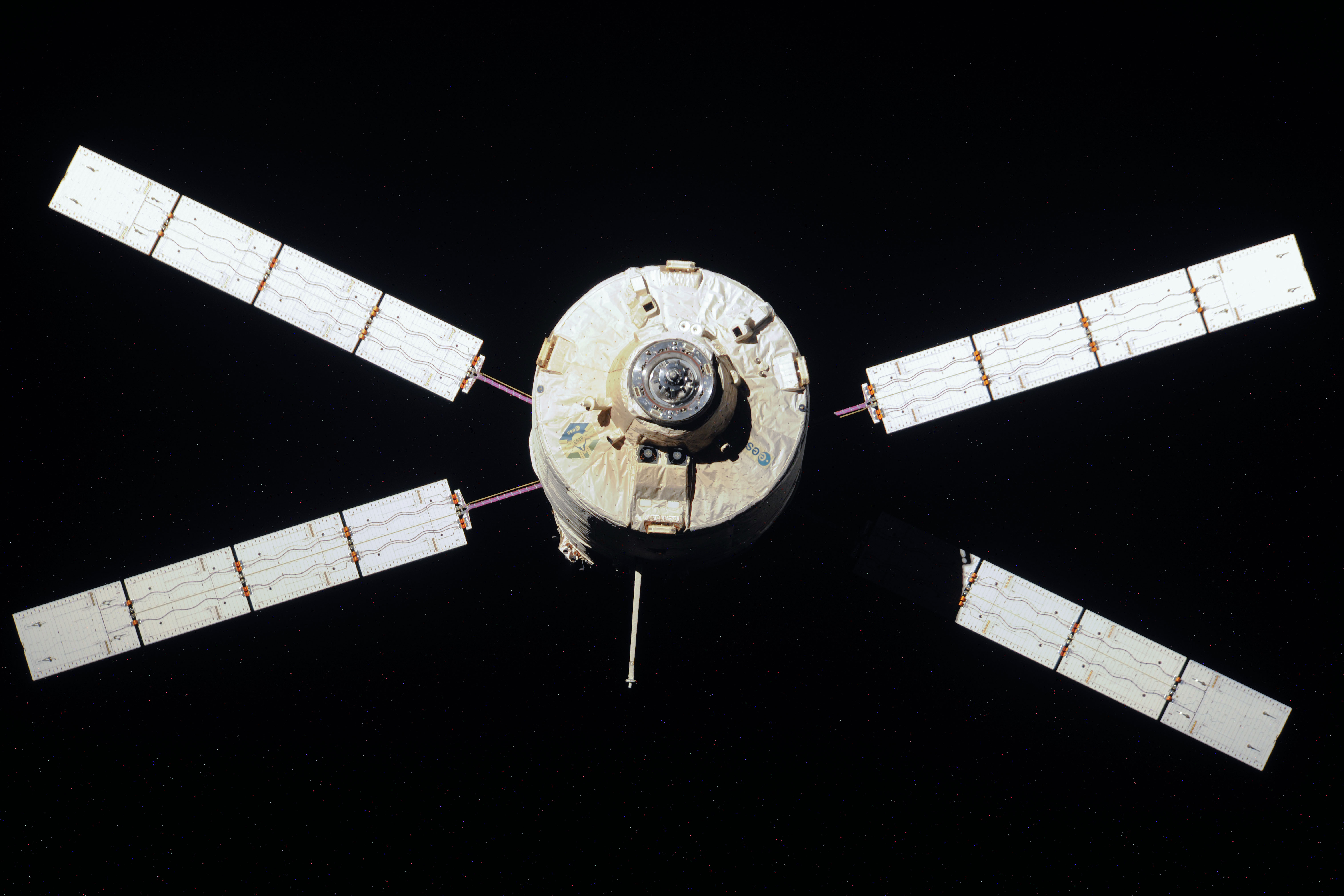 European Space Agency's "Edoardo Amaldi" Automated Transfer Vehicle-3 (ATV-3) begins its relative separation from the International Space Station during the Expedition 33 mission. The ATV-3 undocked from the aft port of the Zvezda Service Module at 5:44 p.m. (EDT) on Sept. 28, 2012. The ATV-3 is scheduled to deorbit on Oct. 2 for a fiery re-entry over the Pacific Ocean that will destroy the trash-filled spacecraft. Inside the ATV-3 is the Re-Entry Breakup Recorder that will record various data such as temperature, pressure and speed as the resupply craft burns up during its return to Earth. Experts will use that data to design safer and more predictable destructive re-entry techniques.